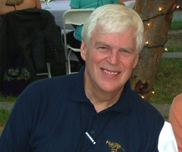 American geneticst and Director of the Theodosius Dobzhansky Center for Genome Bioinformatics Stephen J O'Brien